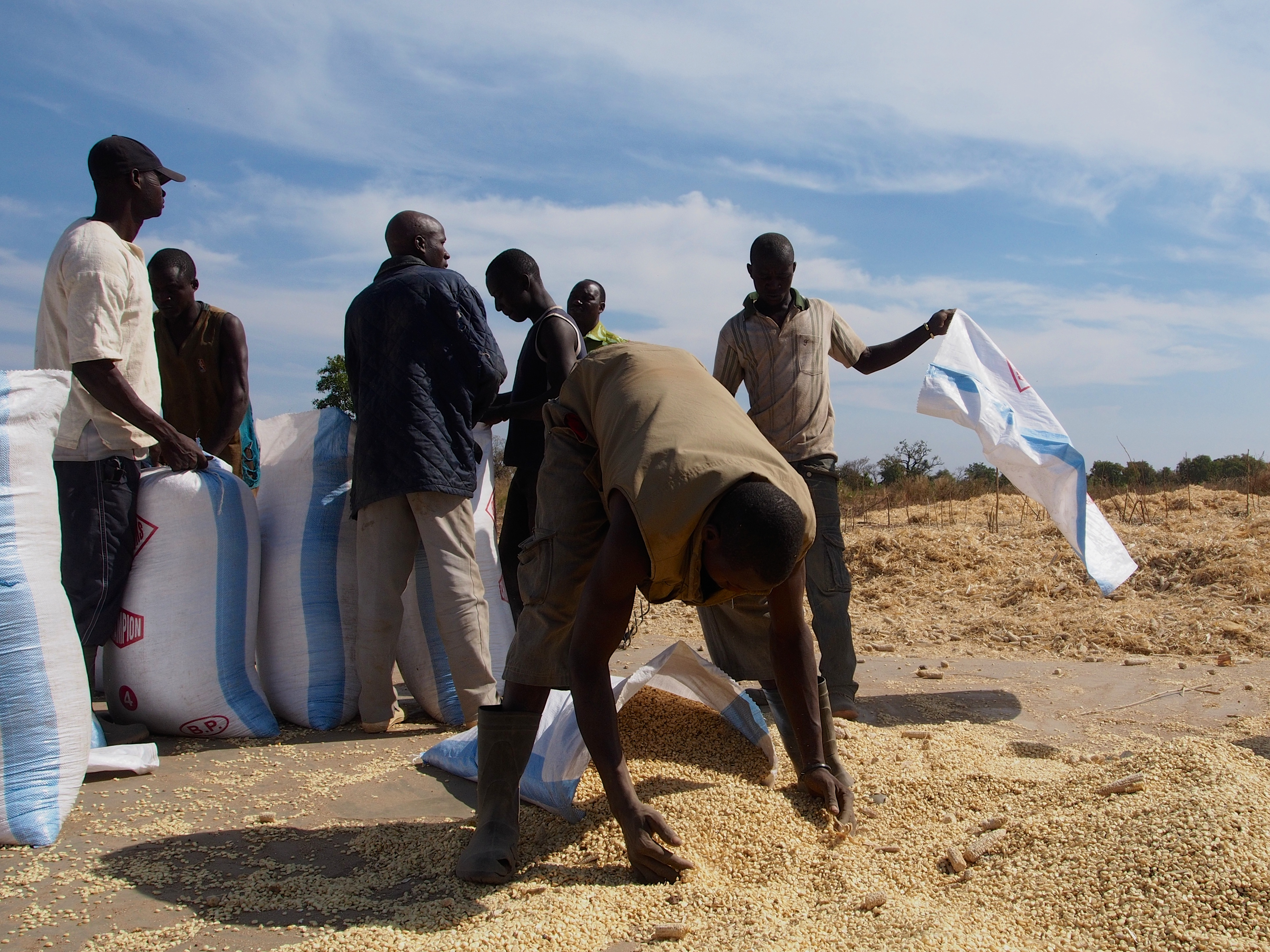 Maize is put into bags by workers in a farm at Sapouy, Burkina Faso.